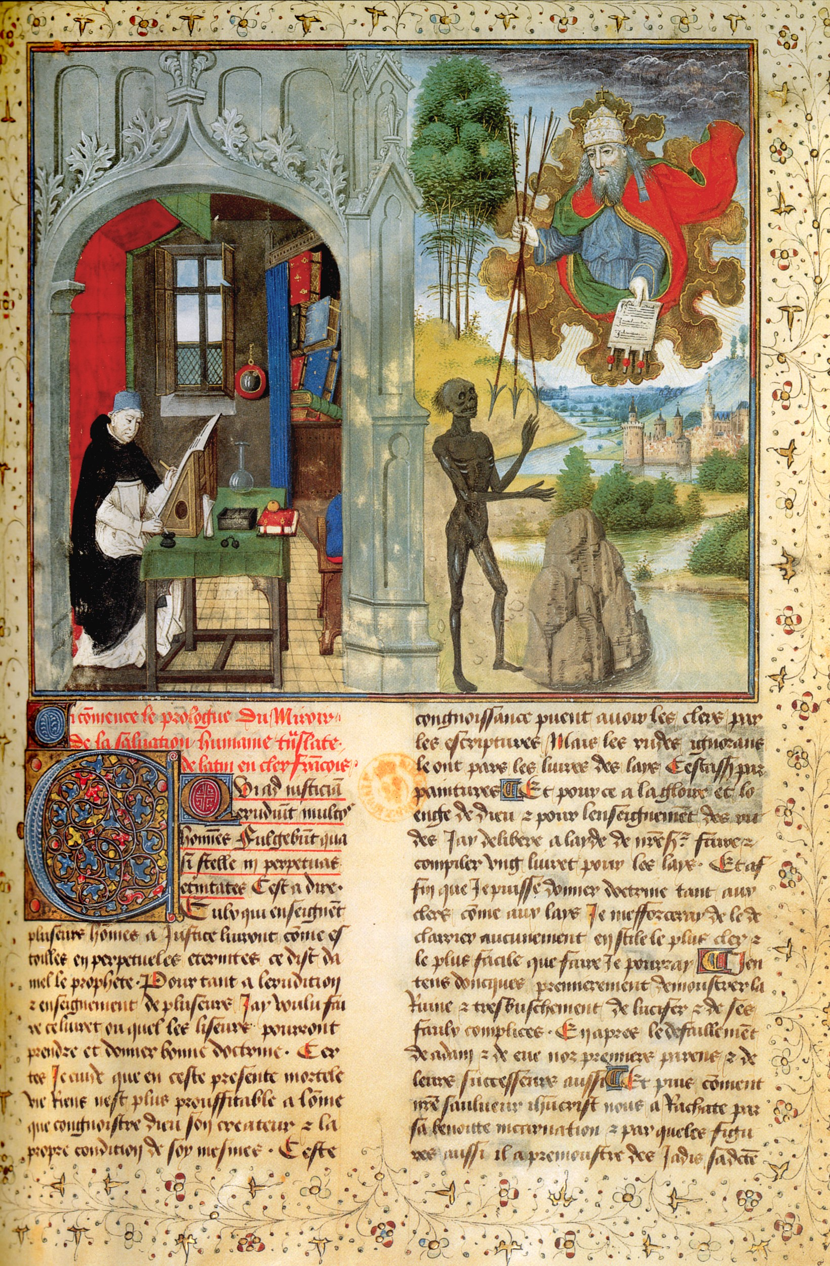 The first page of Jean Mielot's translation of Le Miroir de la Salvation humaine, written for Philip the Good in 1448-49. The seated figure represents Vincent of Beauvais, who was believed to be the original author of the text.